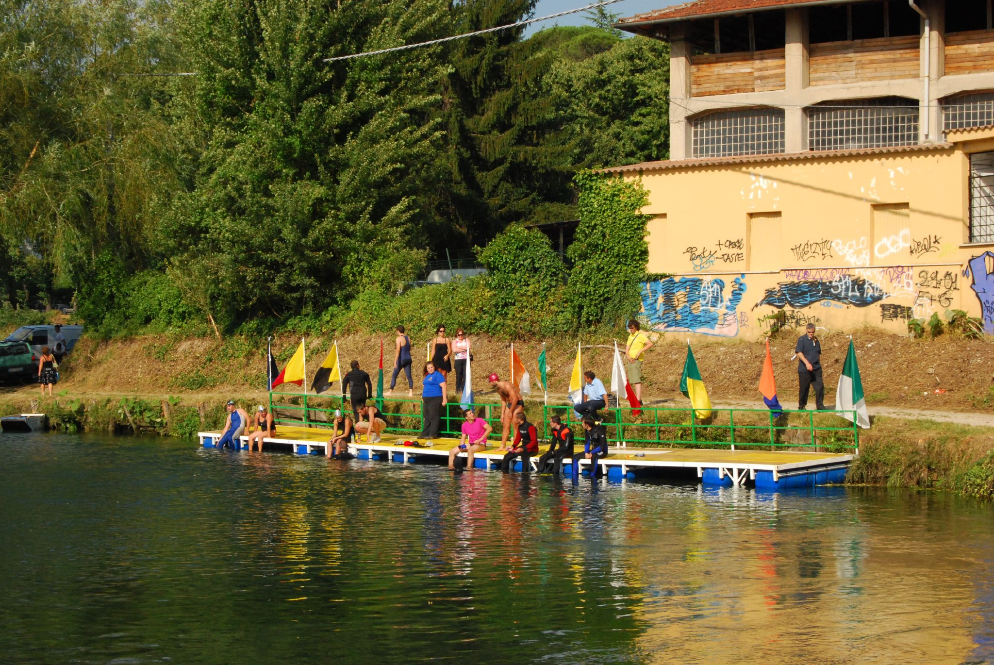 The traditional Palio della Tinozza competition in Rieti, Lazio, Italy. 2008 edition.